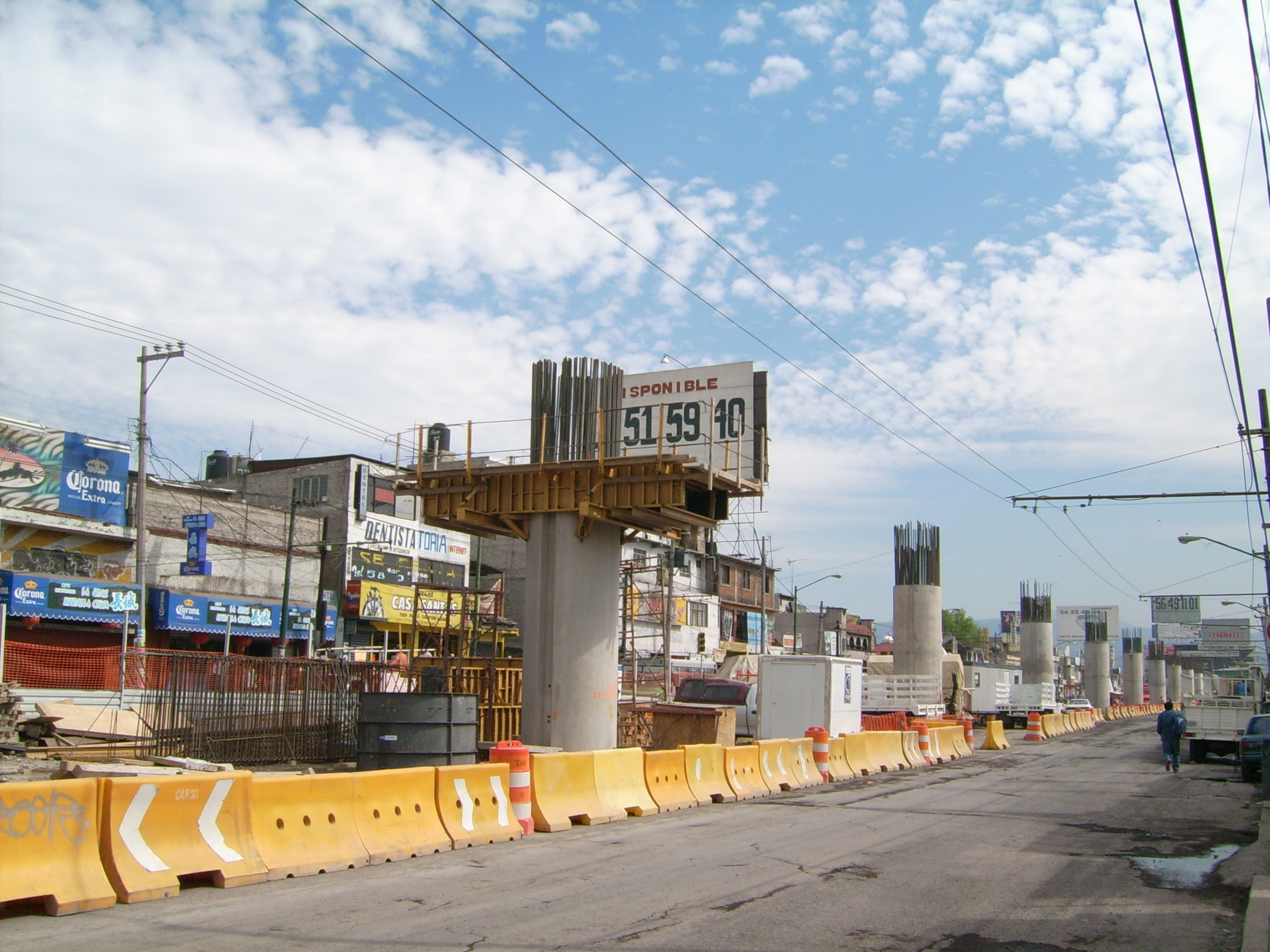 Construction of the section Periferico-San Lorenzo Tezonco of line 12 of STC-Metro (Mexico City)